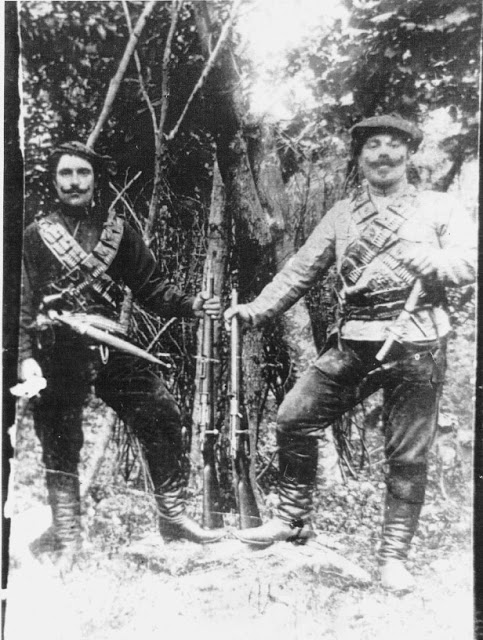 Gurian Outlaw Erasti Jorbenadze and murderer of Ilia Chavchavadze Iliko Imerlishvili